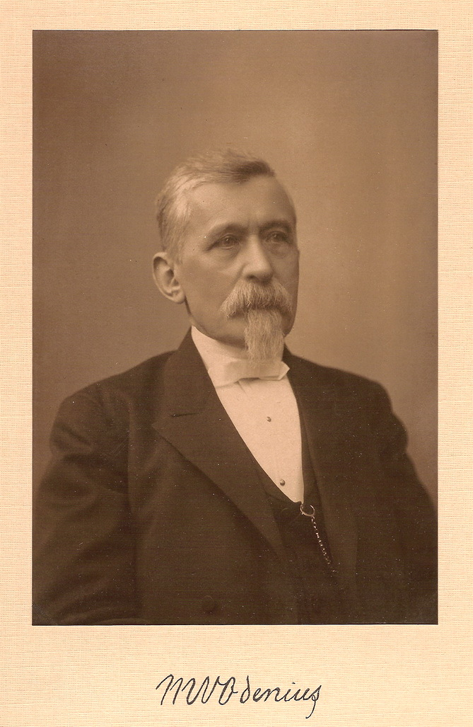 Maximilian Victor Odenius (1828-1913), Swedish professor of forensic pathology at Lund University.